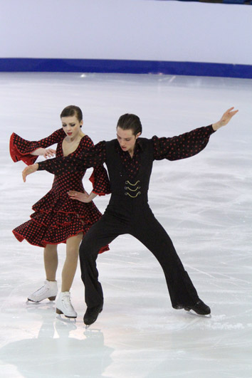 2010 World Junior Figure Skating Championships - Alexandra Paul and Mitchell Islam